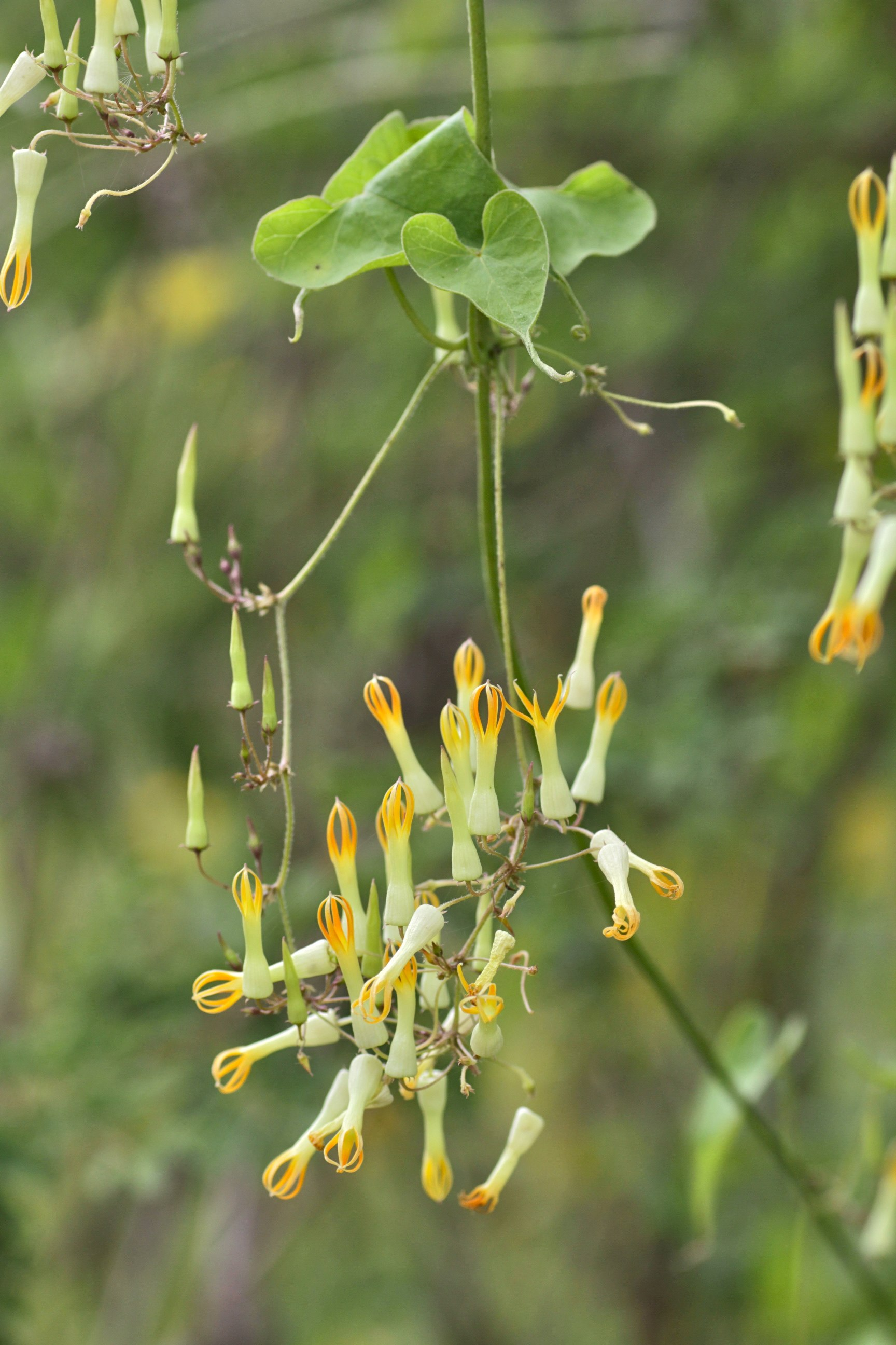 South Africa. Cumberland Nature Reserve (near Pietermaritzburg)